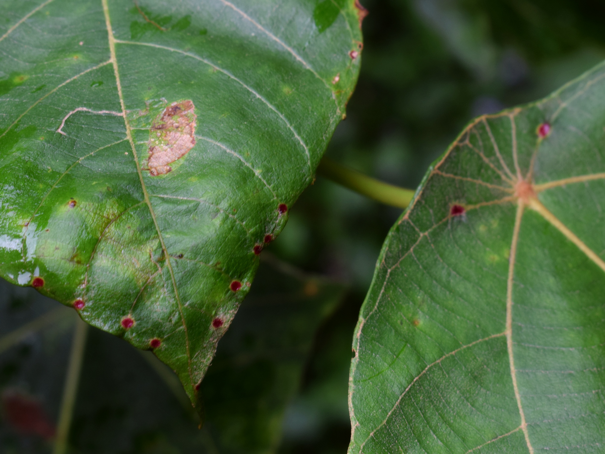 Macaranga rhizinoides; leaf close up to show extrafloral nectary glands (dark red dots). From Mt. Tangkubanprahu, Subang, West Java, Indonesia.